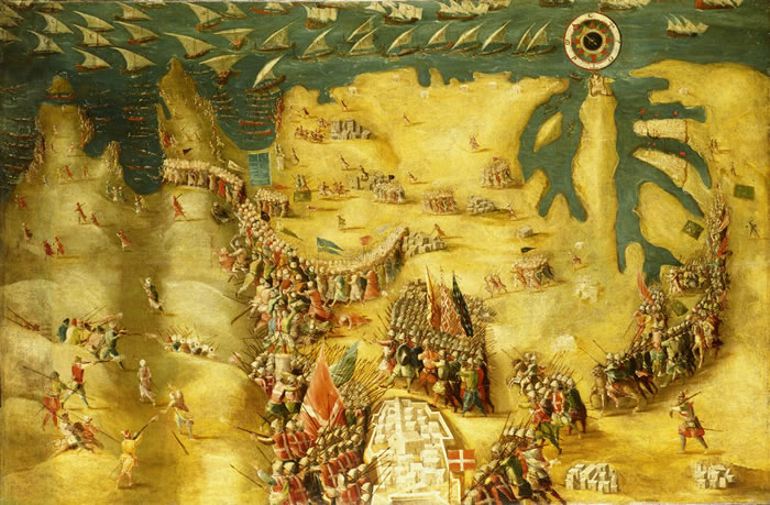 The siege of Malta (1565) – Flight of the Turks